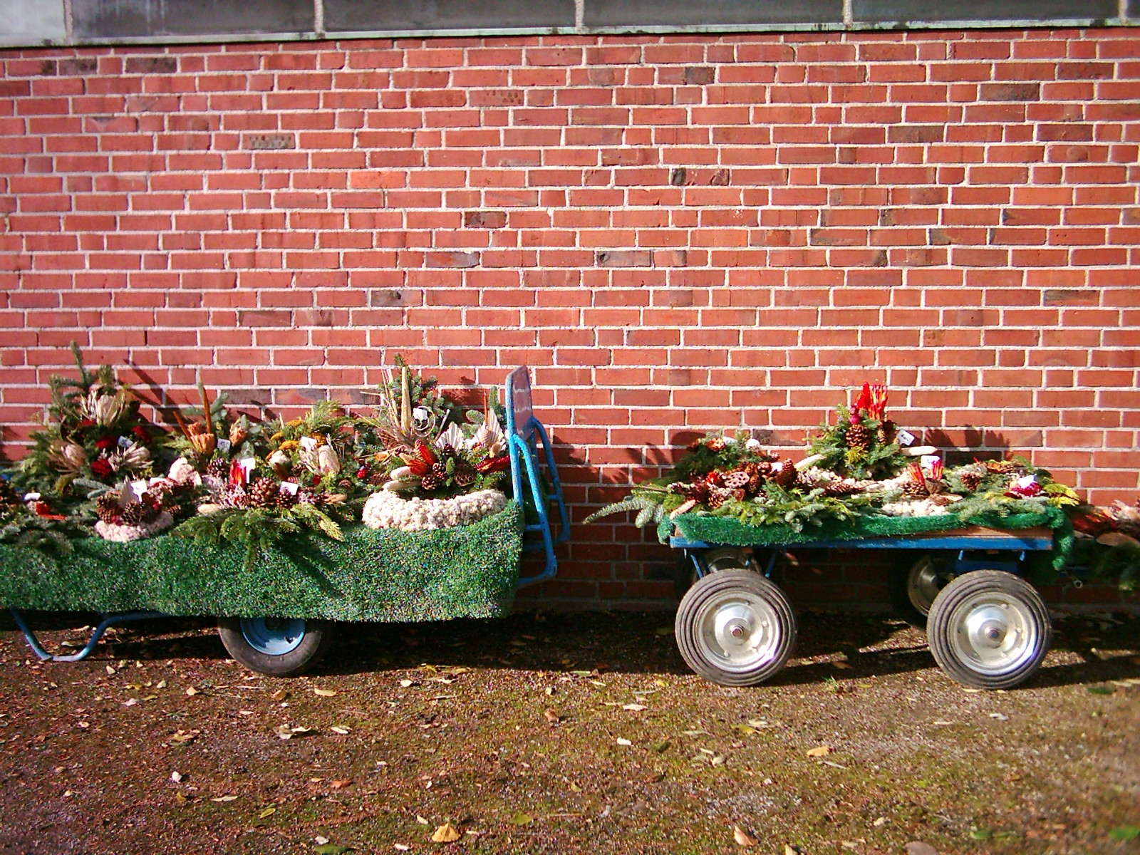 Grave flower selling, Hamburg, Germany.